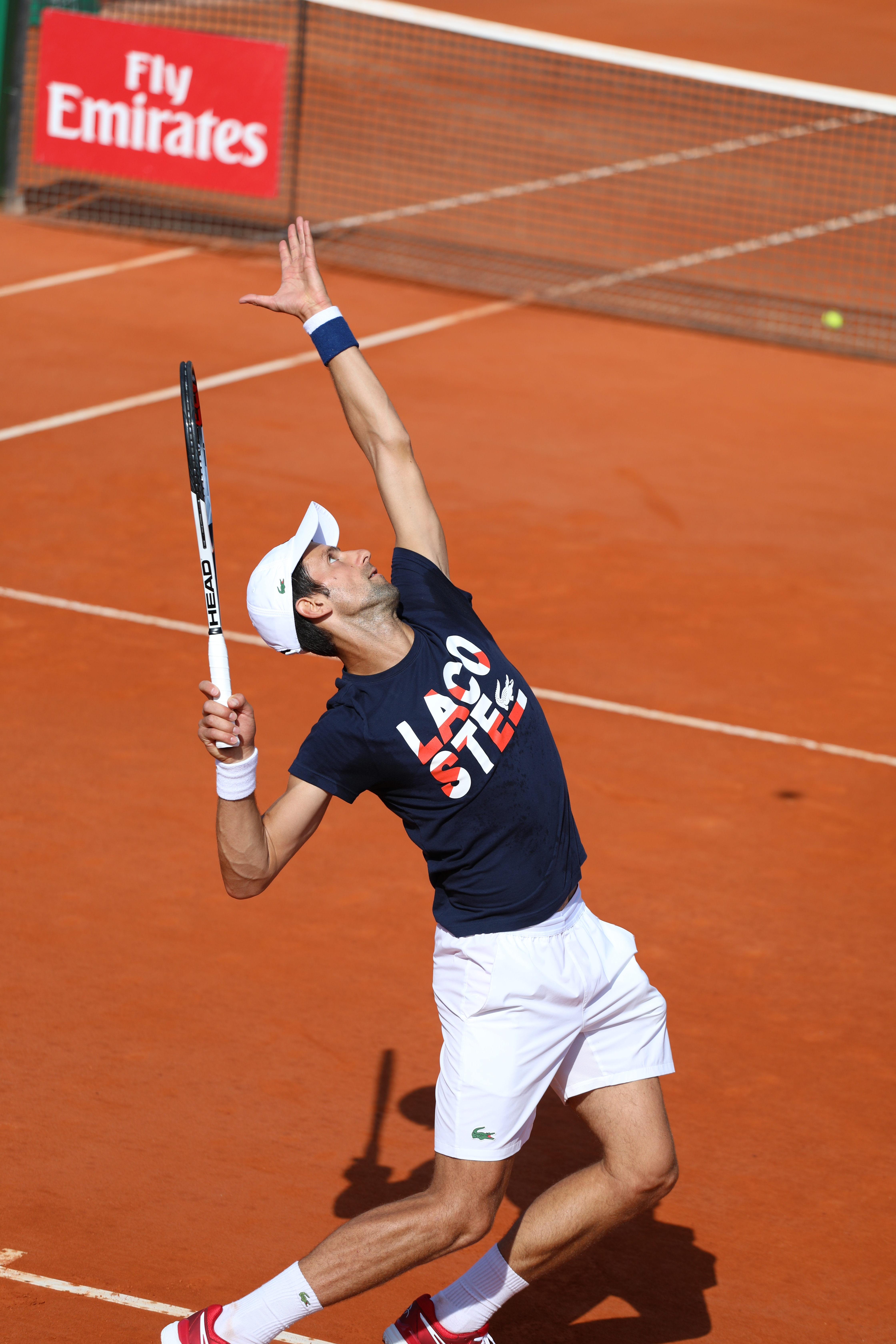 2018 Monte-Carlo Masters